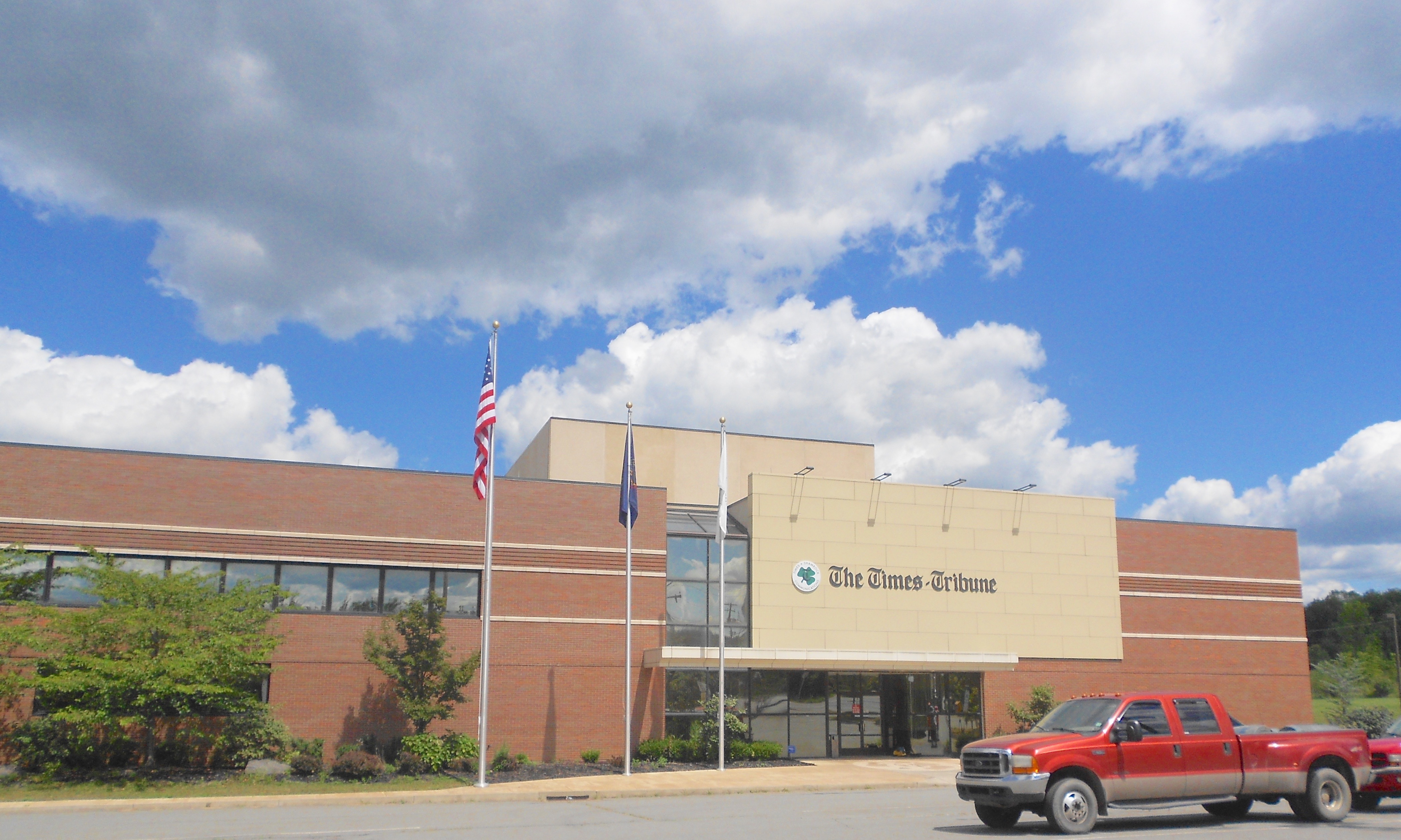 The Times-Tribune Printing Plant in Scott Township, Lackawanna County, Pennsylvania north of Scranton, PA near I-81 on PA 632. Part of the Times-Shamrock Company